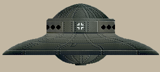 Fictional design of a Nazi UFO